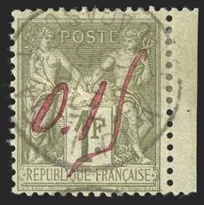 Provisional 15 c stamp, used in the port of Majunga by French expedition forces